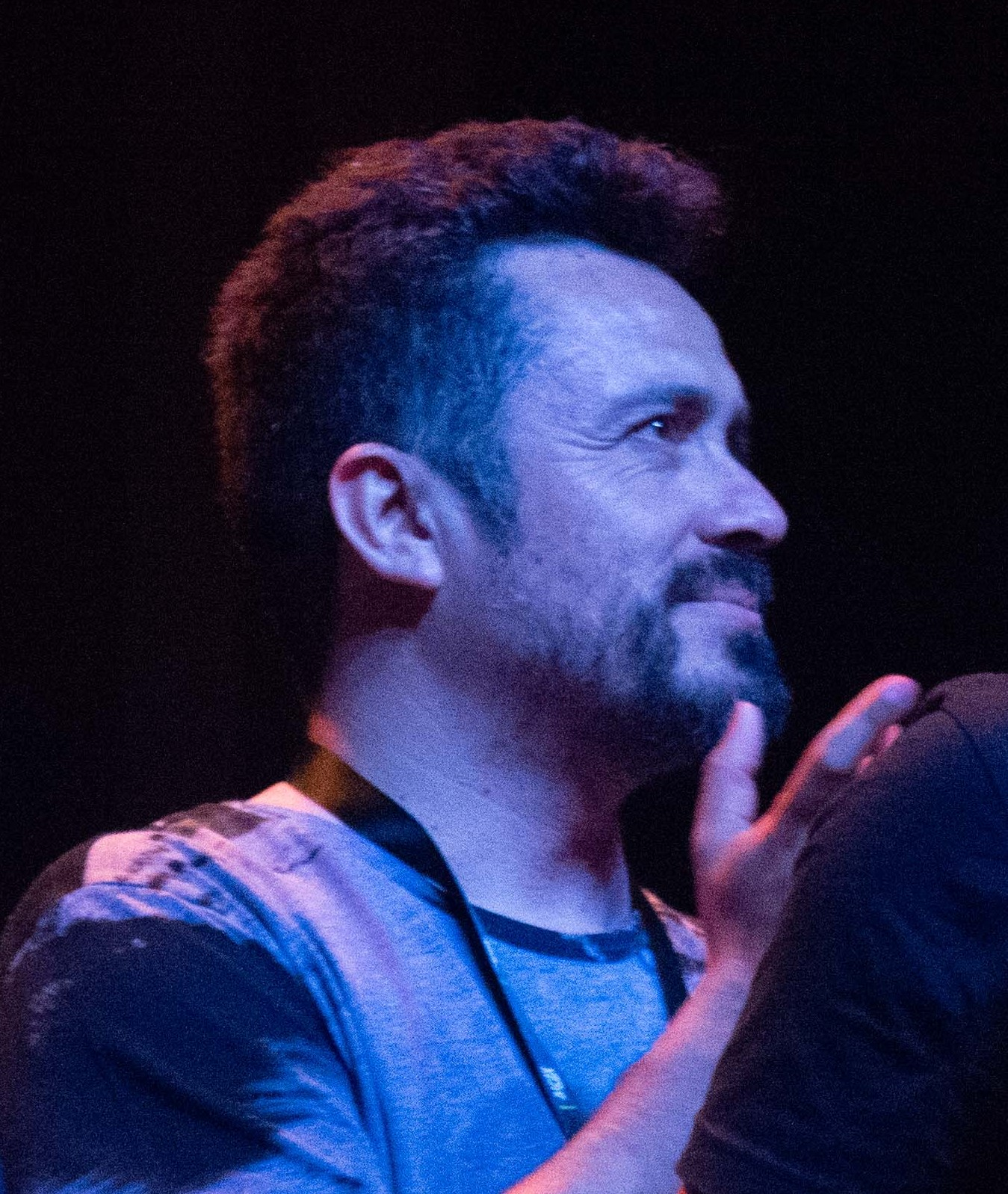 Pablo Ilabaca in november 2018. Chilean guitar player